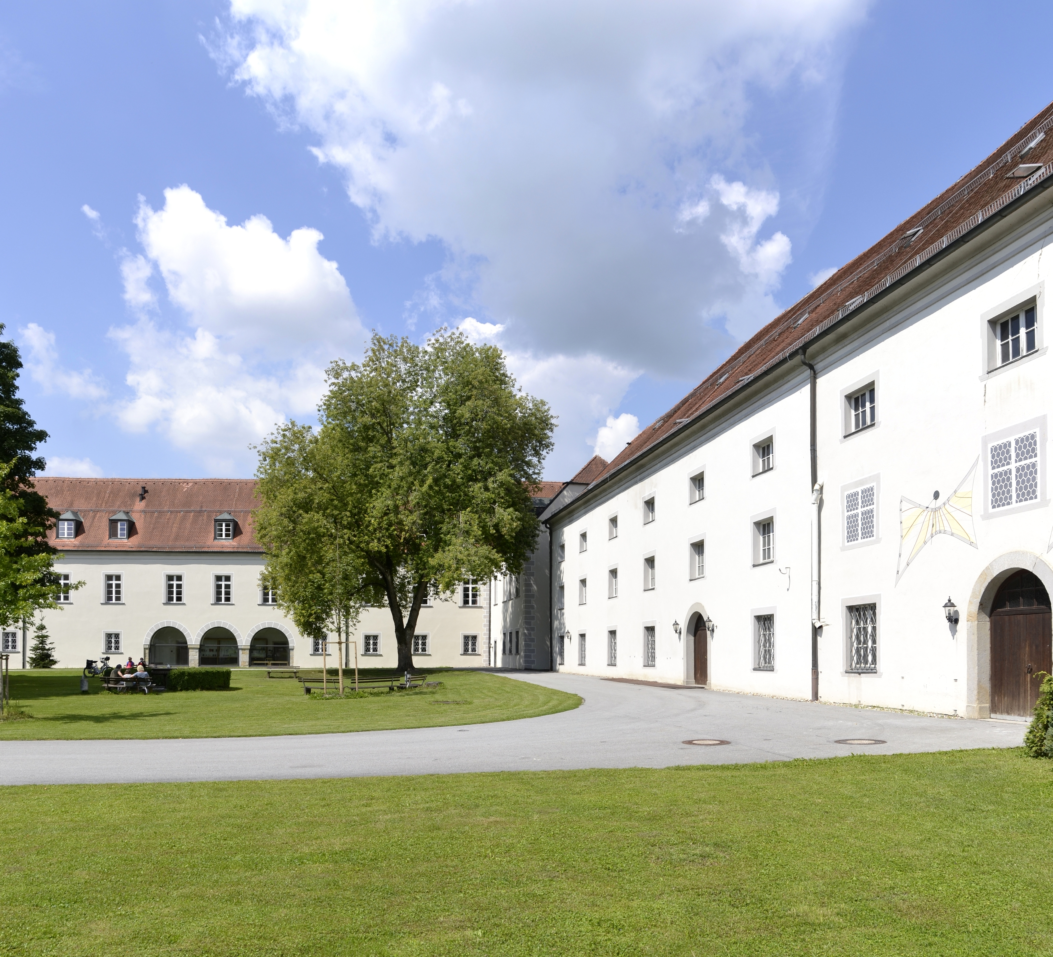 The courtyard of Niederaltaich Abbey.